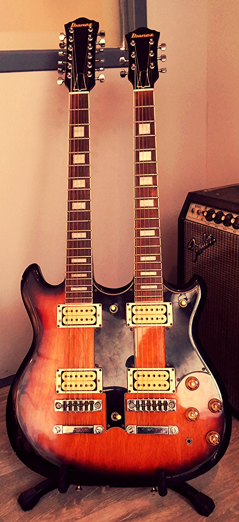 A rare and special guitar, among the top models of the studio series. Both fingerboards are made of rosewood. The body is made of mahogany, and it’s flat, solid and double-cut. This Ibanez, and lots more will soon be made available to music lovers worldwide… Visit to find out more about this new innovative concept, and what opportunities may lay there for you… References Studio Series. 1981 Ibanez Electric Guitars (brochure) p. 7. Ibanez, Hoshino Gakki (1981).